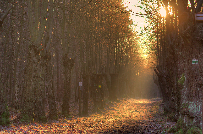 Avenue towards the Bismarck tower in Jena, Germany